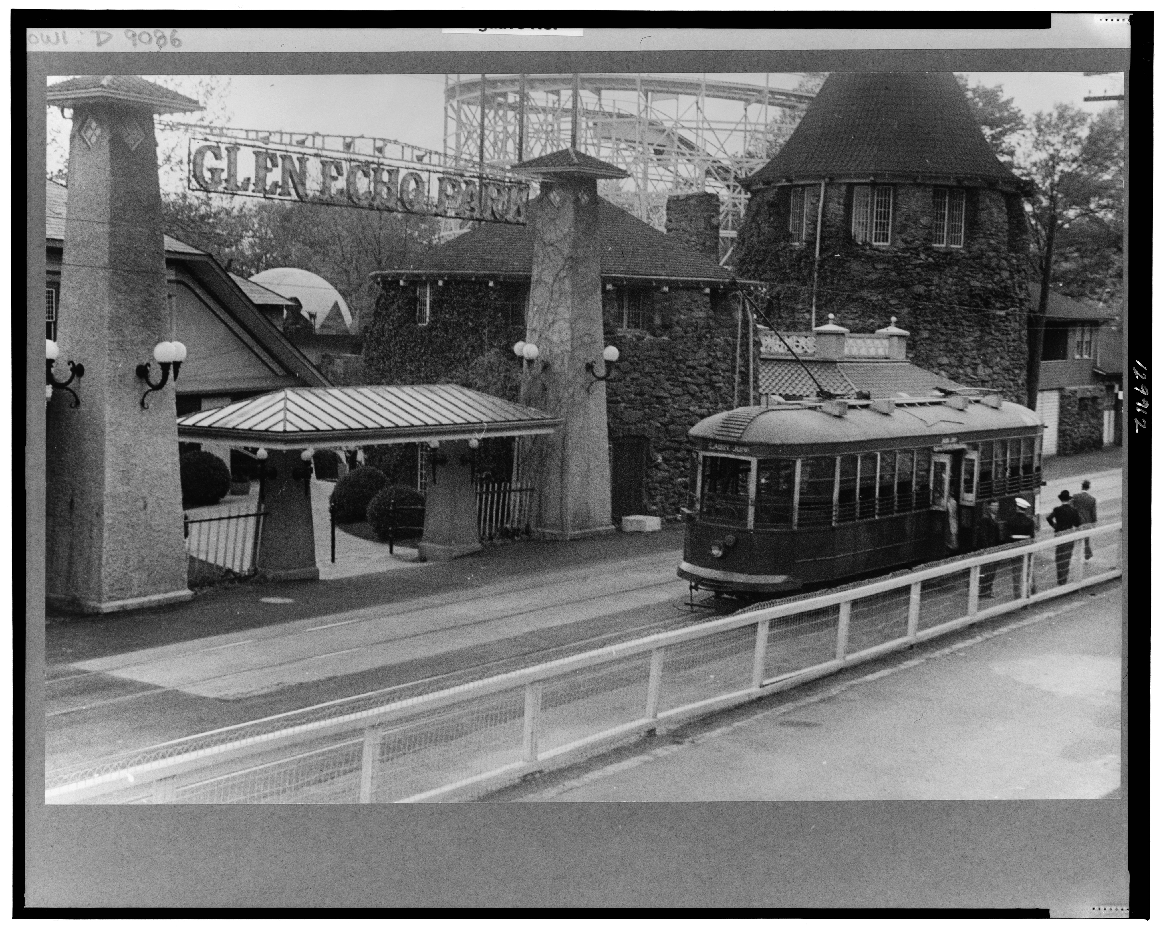 Streetcar at Glen Echo Park Original: Glen Echo, Maryland. A view of the entrance of Glen Echo Park, showing persons alighting from a Cabin John streetcar in front of it